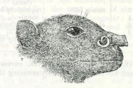 Nyctimene major, formerly Nyctimene scitulus